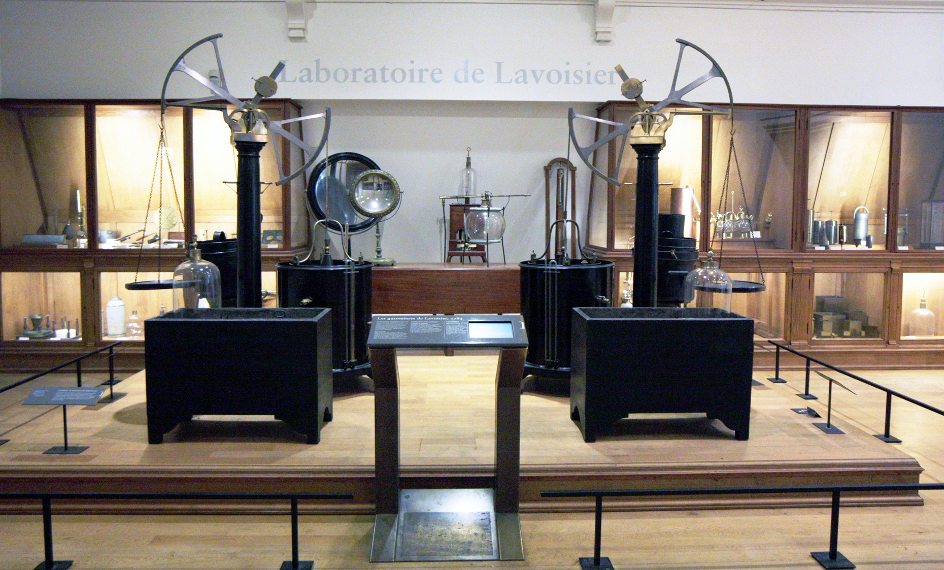 Lavoisier's Laboratory, Musée des Arts et Métiers, Paris:Pneumatic chemistry two gazomèters